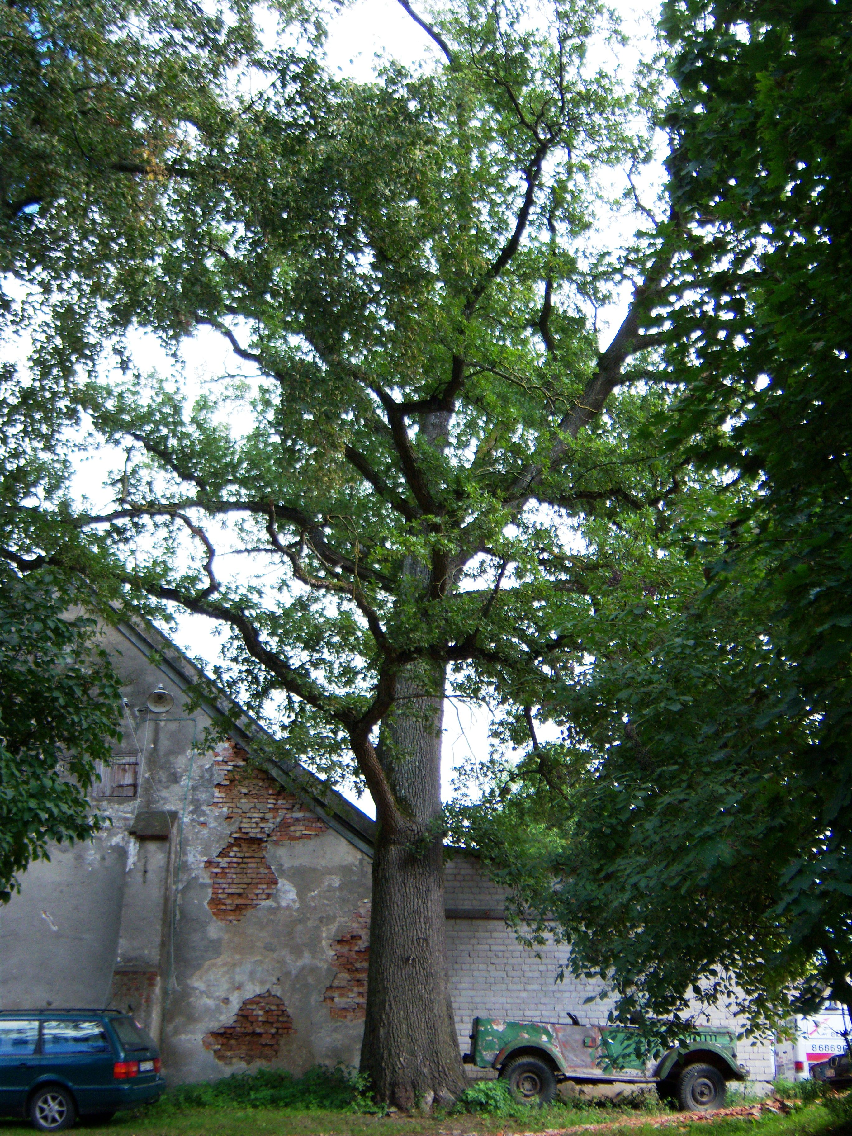 Oak tree, Jaunystės Street 24, Klaipėda, Lithuania